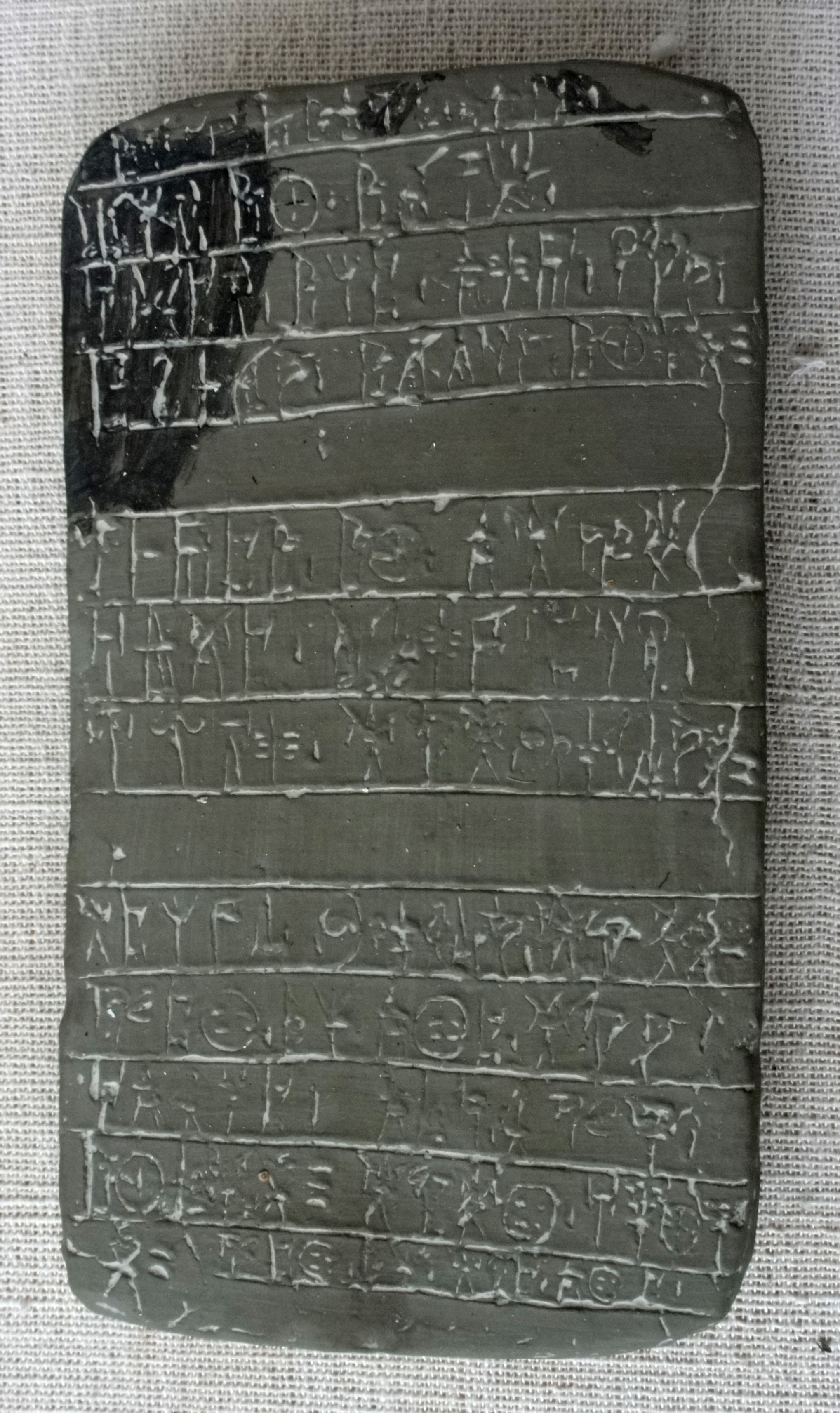 Located in the Archaeological Museum at Hora near Pylos. This is a copy of the original tablet now likely to be located at the Athens Museum.